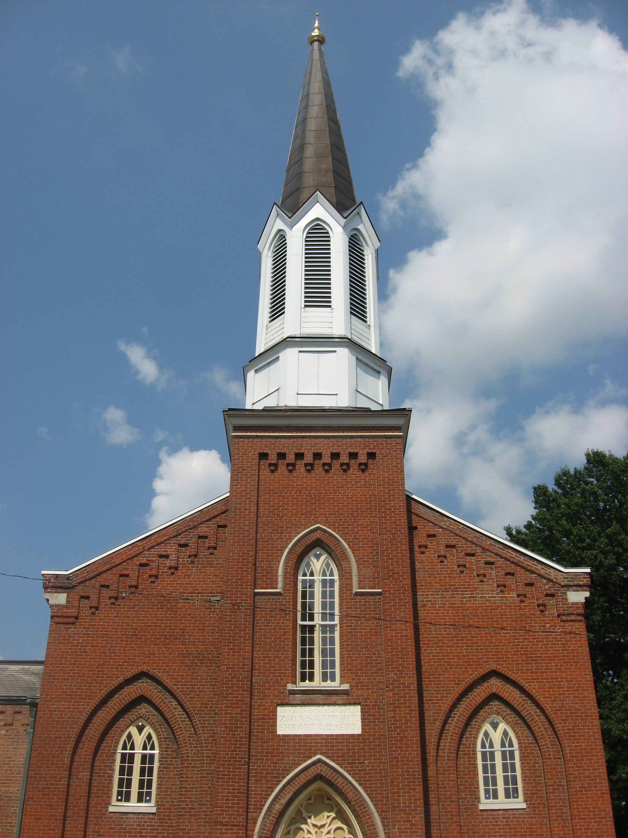 Front of Zion Evangelical Church, located at 415 NW. Fifth Street in Evansville, Indiana, United States. Built in 1855, it is listed on the National Register of Historic Places.